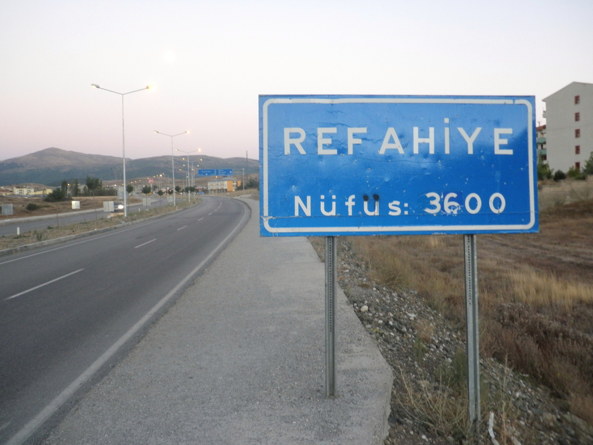 A view from Refahiye.